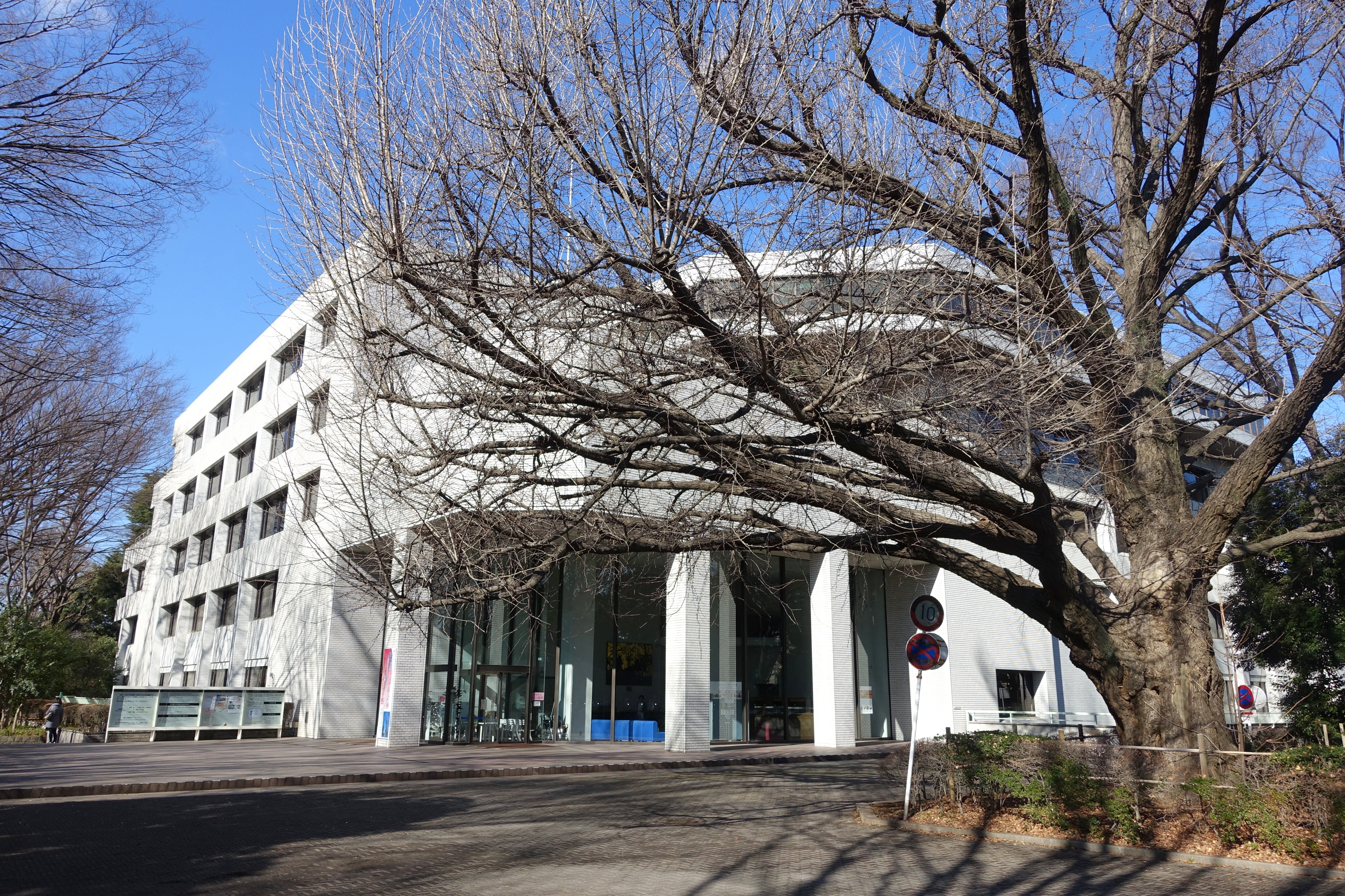 Arisugawa-no-miya Memorial Park, Minato, Tokyo, Japan.